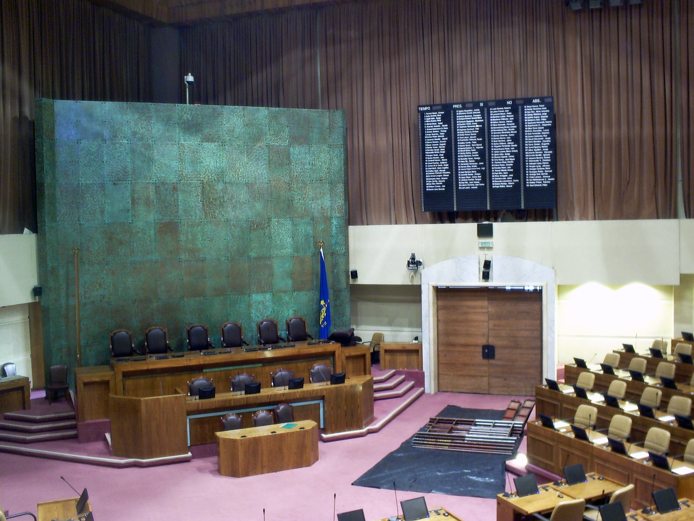 View of the Chamber of Deputies of the National Congress of Chile, in Valparaíso